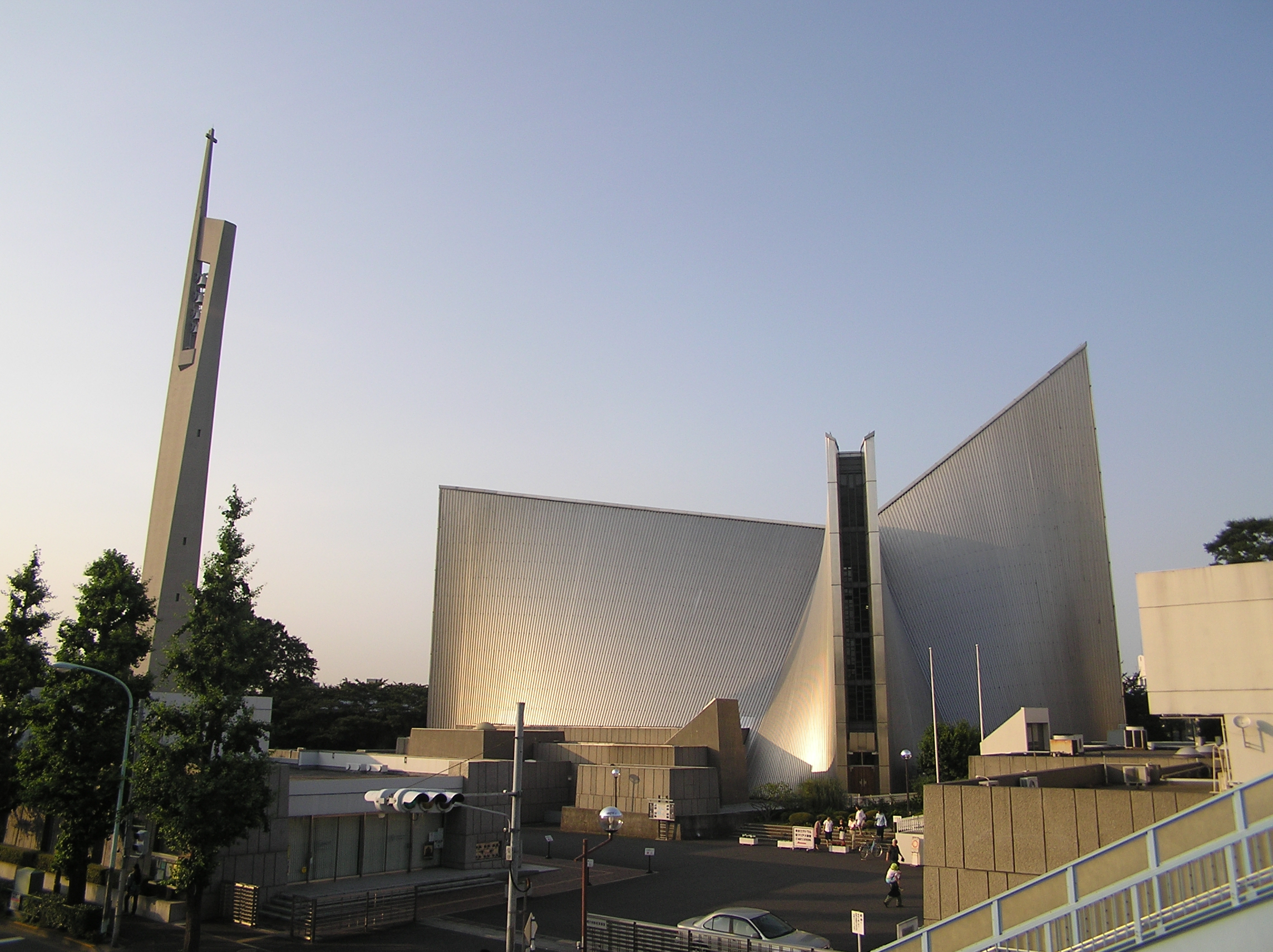 Tokyo Cathedrale(St. Mary's Cathedral). A work by Tange Kenzo.